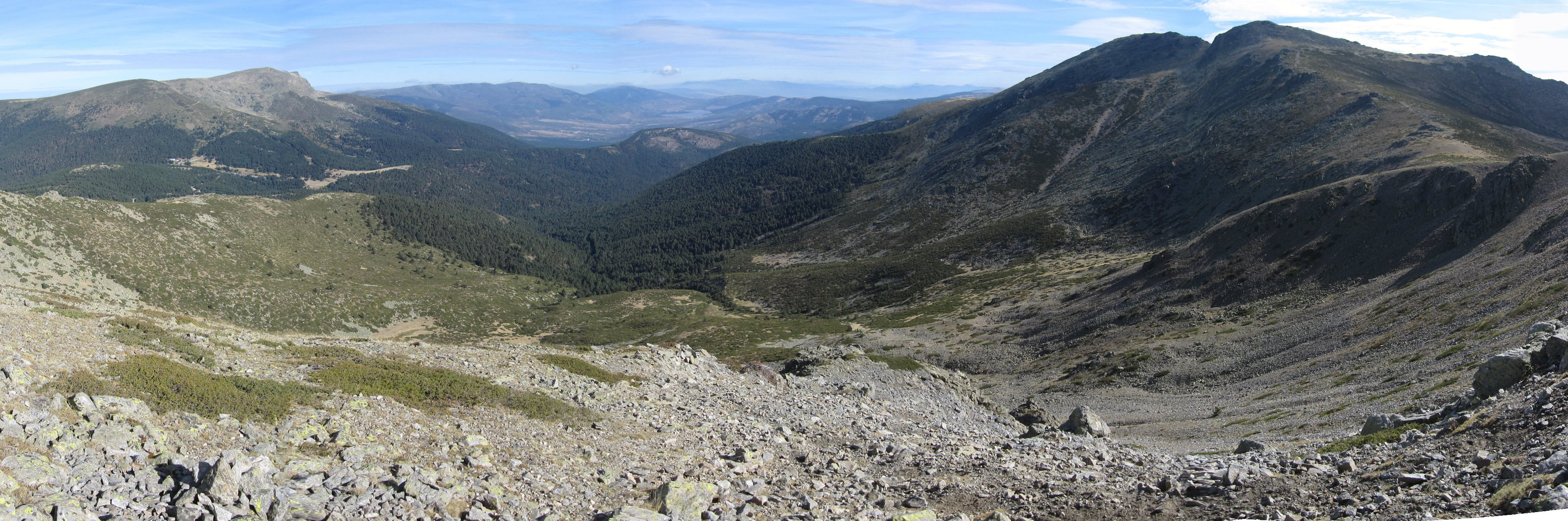 Peñalara, Lozoya valley and Cabezas de Hierro seen from an area close to the summit of Valdemartín (Guadarrama mountain range, central Spain).